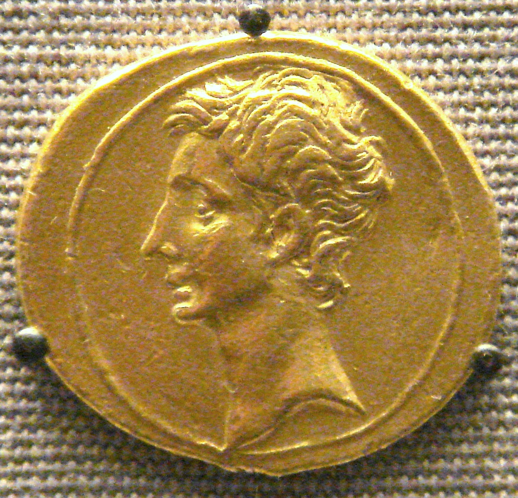 Octavian_aureus_circa_30_BCE